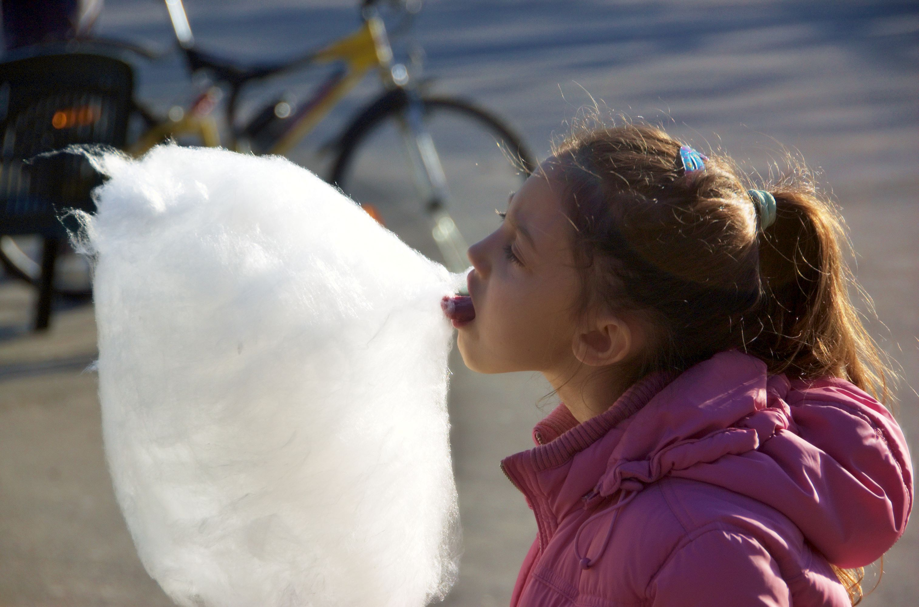 i haven't eaten candy floss since a little child (20 years ago maybe), but looking at the joy of this girl, oh boy, i wanted to take it from her hands :)